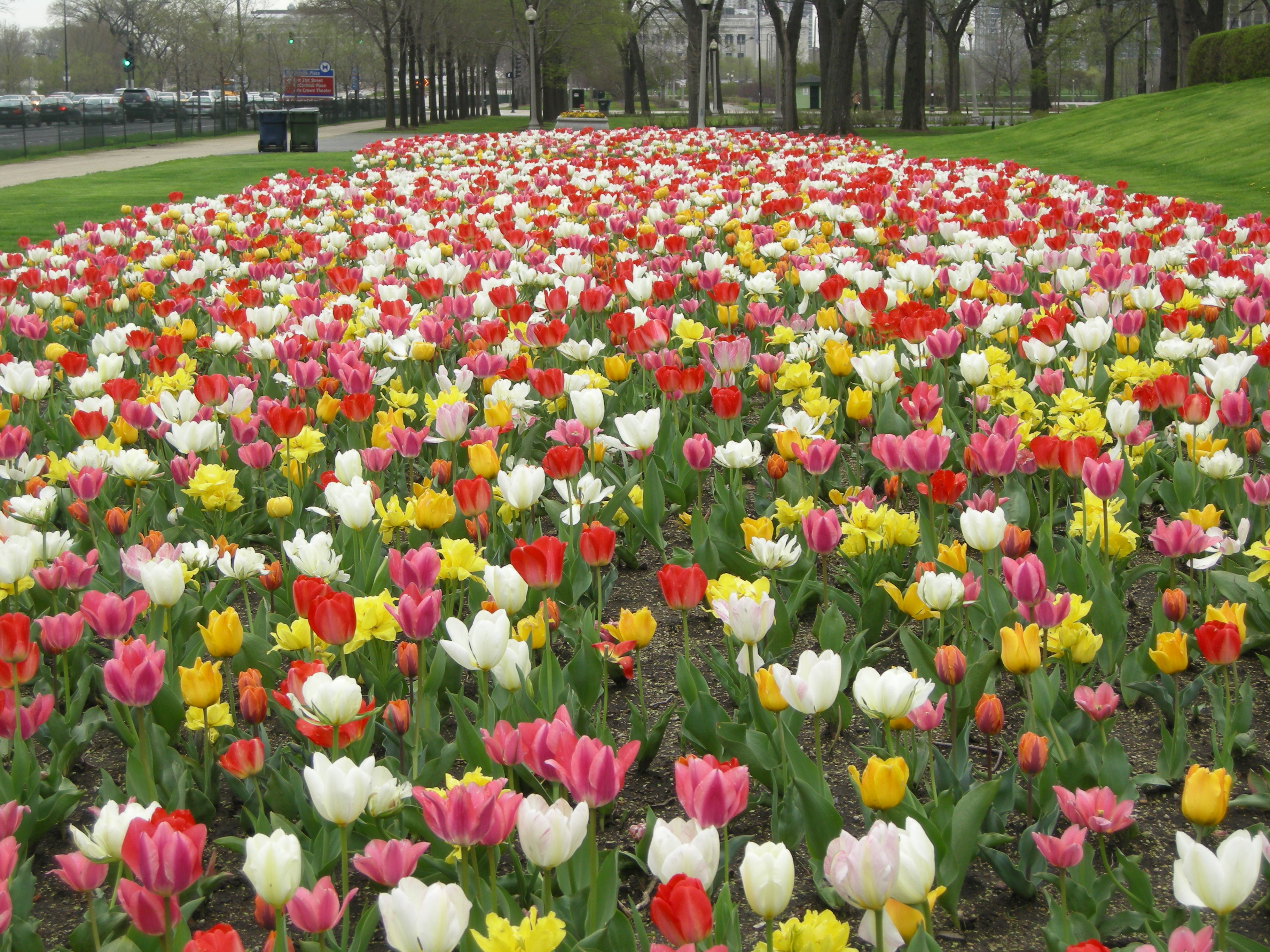 Tulips at Buckingham Fountain